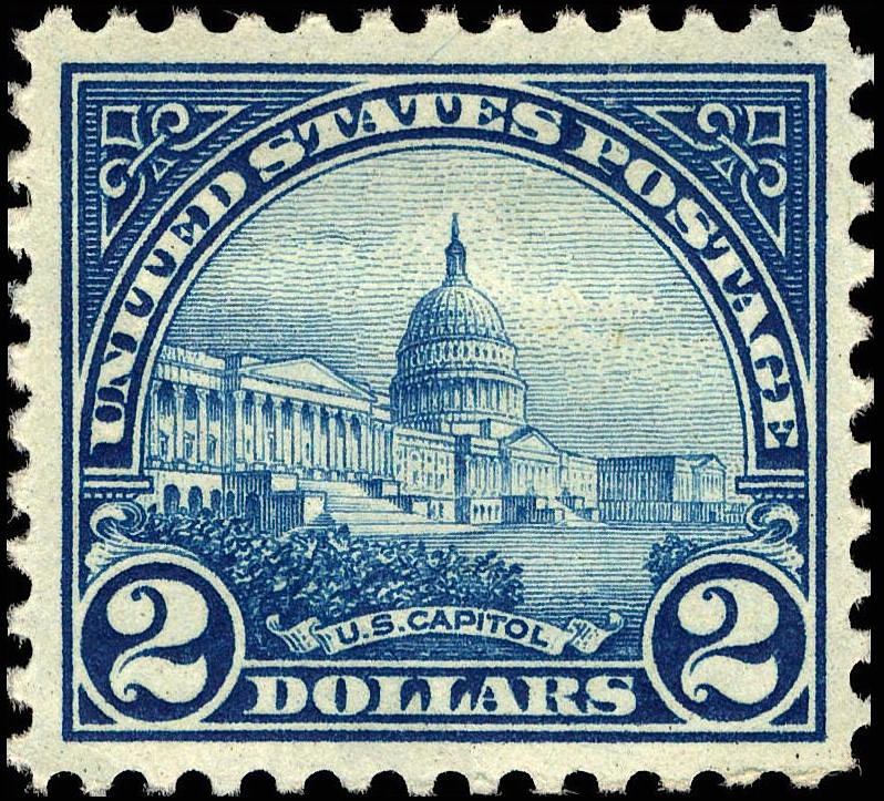 US Postage stamp, US Capitol issue, 1922 2-dollars, blue